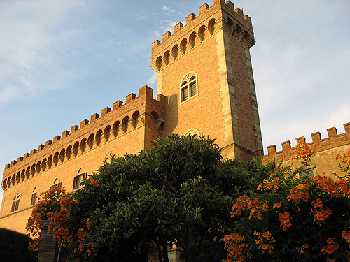 Bolgheri (Tuscany, Italy): Bolgheri Castle